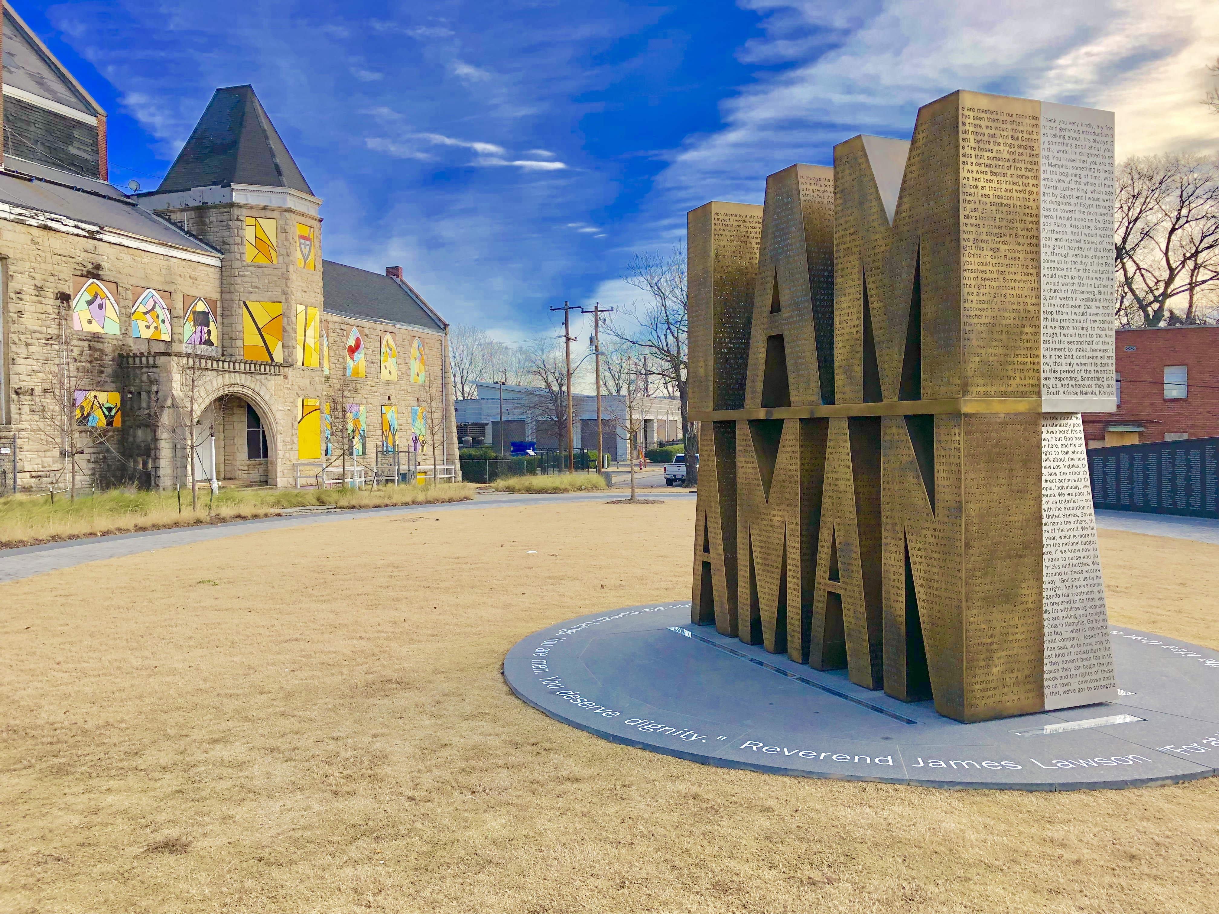 This church is where the 1968 Memphis sanitation strikers met and marched from, led by Dr. Martin Luther King, Jr.